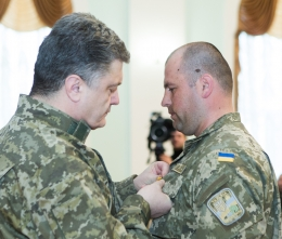 Vasyl Zubanych receives Gold Star of Hero of Ukraine from President Petro Poroshenko